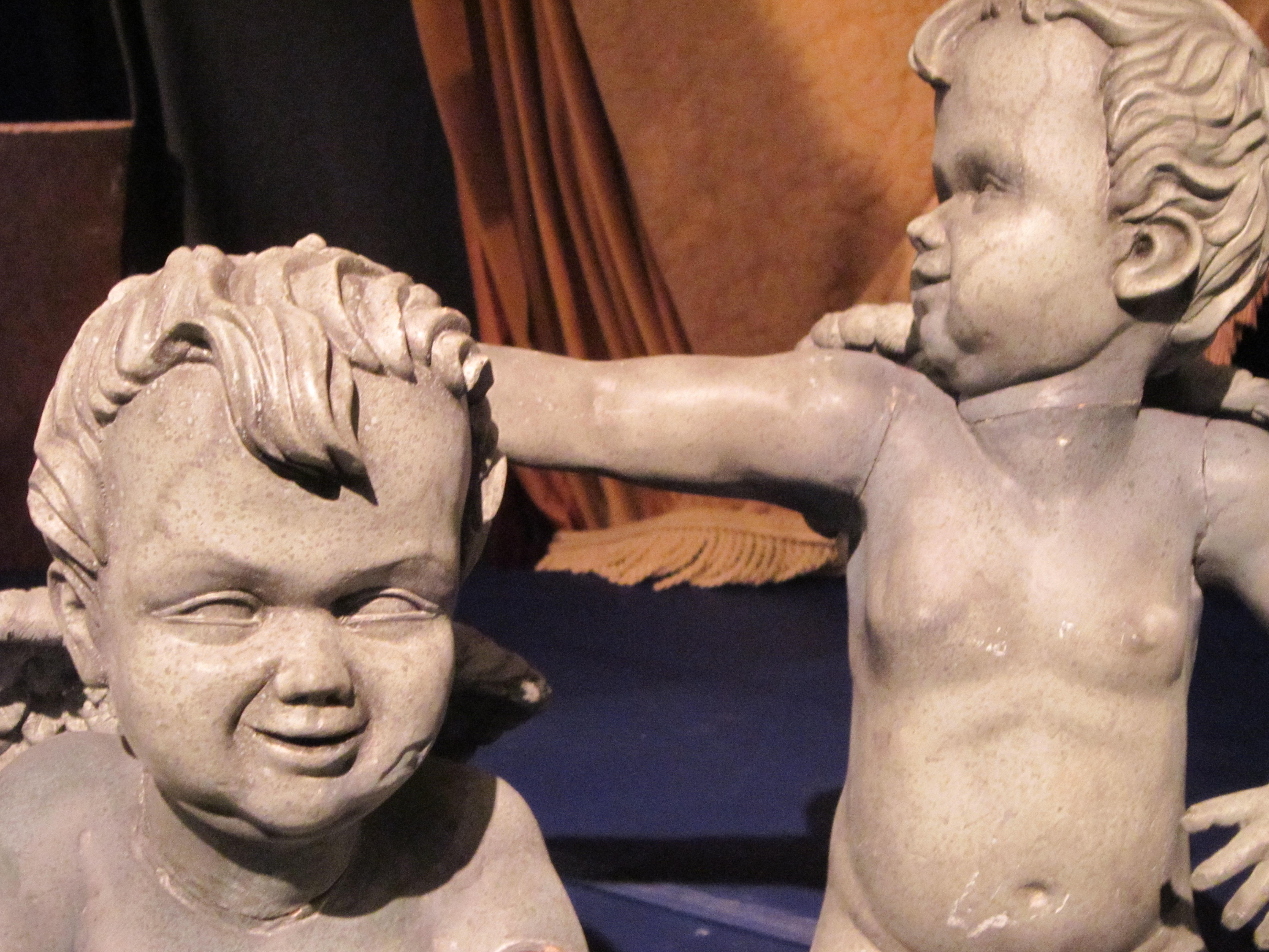 La Doctor Who Experience à Cardiff Doctor Who Experience